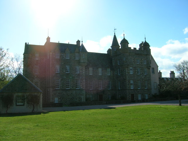 Cullen House